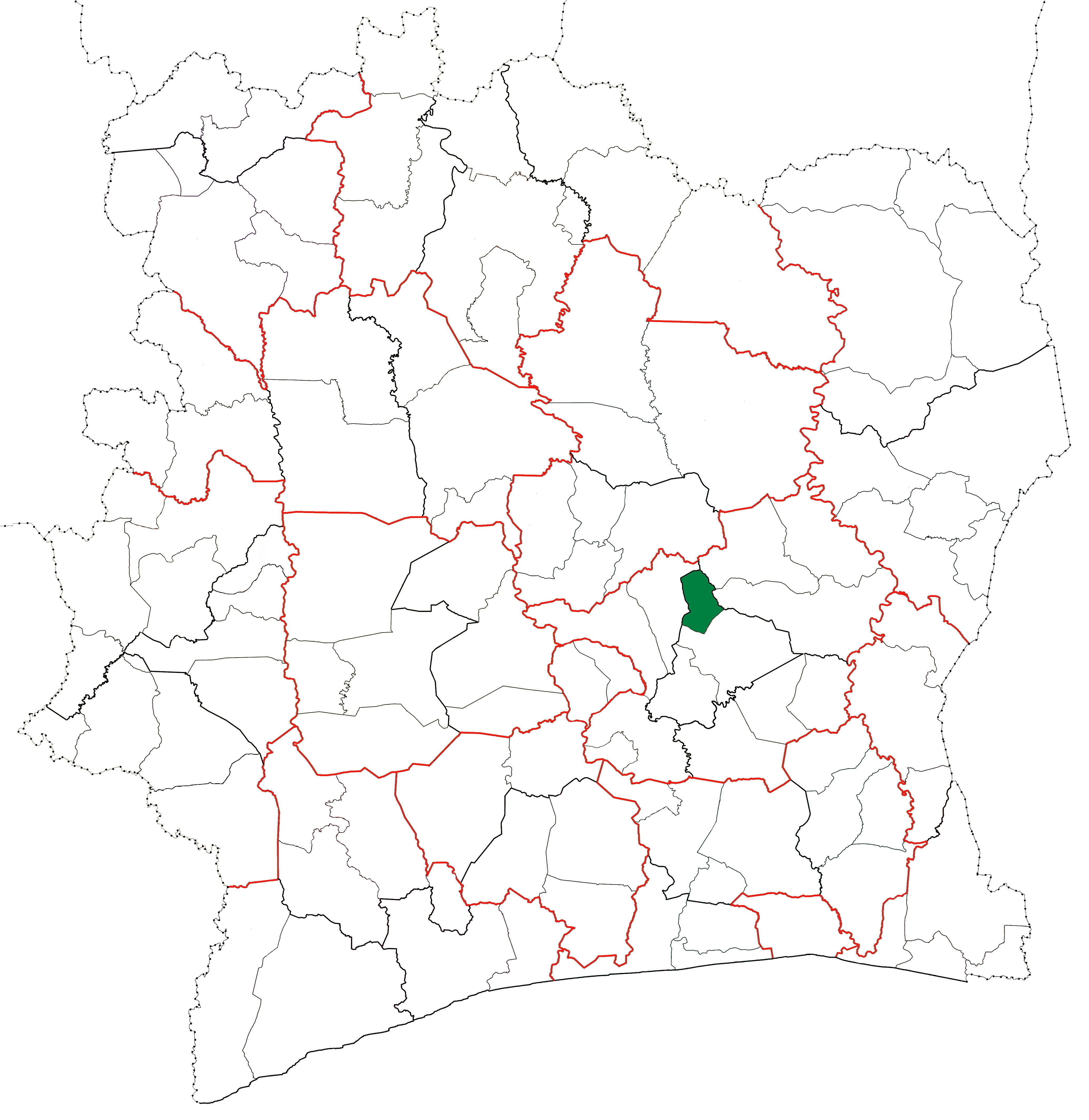 Locator map for Kouassi-Kouassikro Department in Côte d'Ivoire.